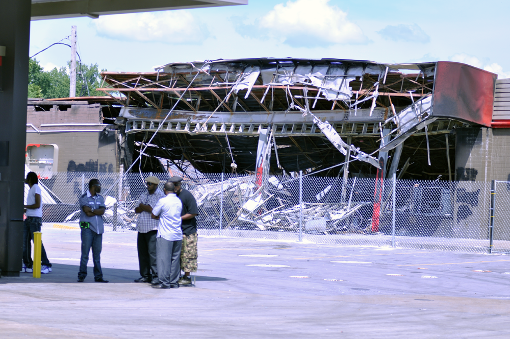 Fence erected around gas station.